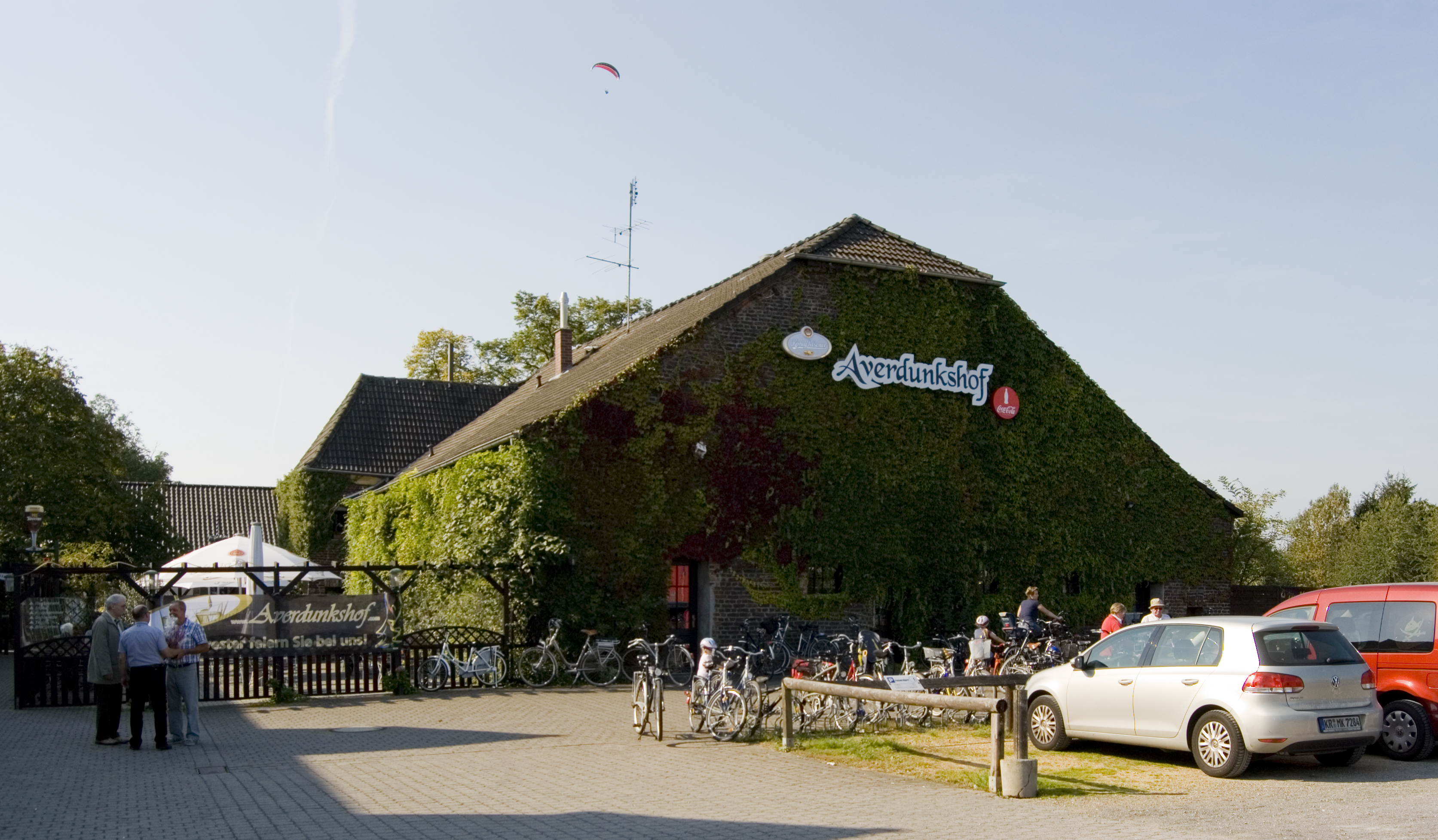 Neukirchen-Vluyn (North Rhine-Westphalia, Germany) – district Neukirchen – Averdunkshof This photograph was taken with a Nikon D3000.